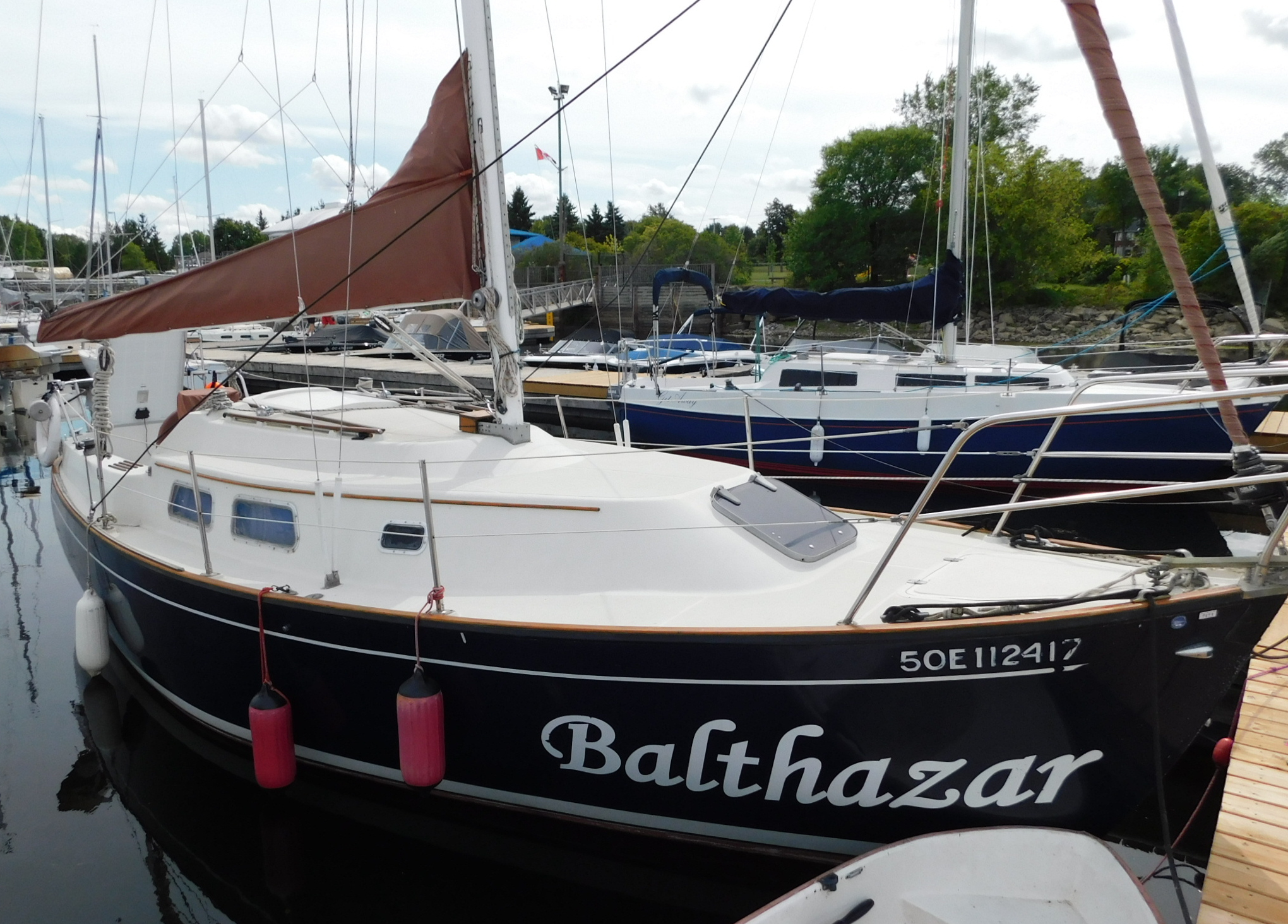 A Halman Horizon sailboat named Balthazar.